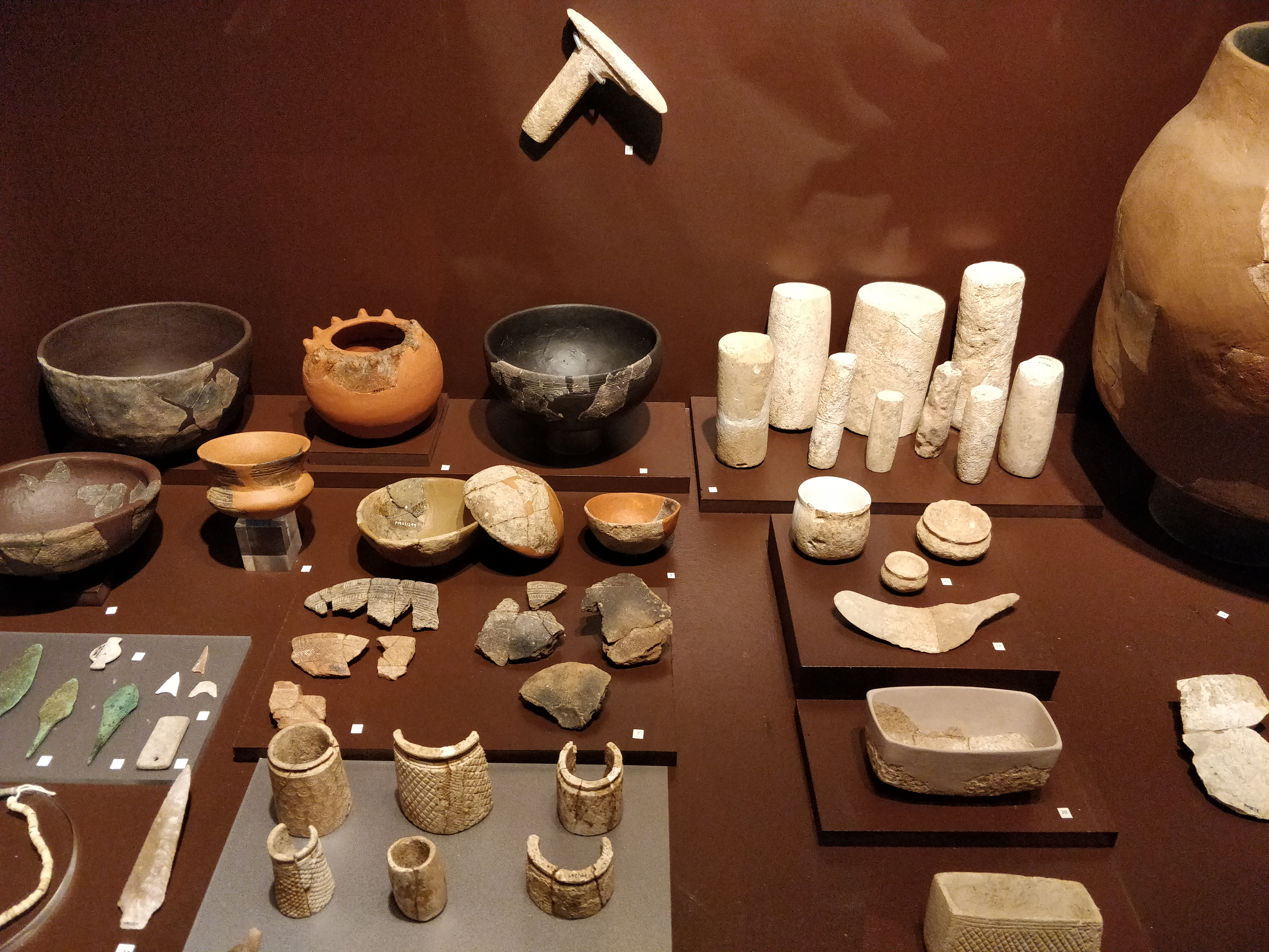 Archaeological display at the Leonel Trindade municipal museum, Torres Vedras, Portugal